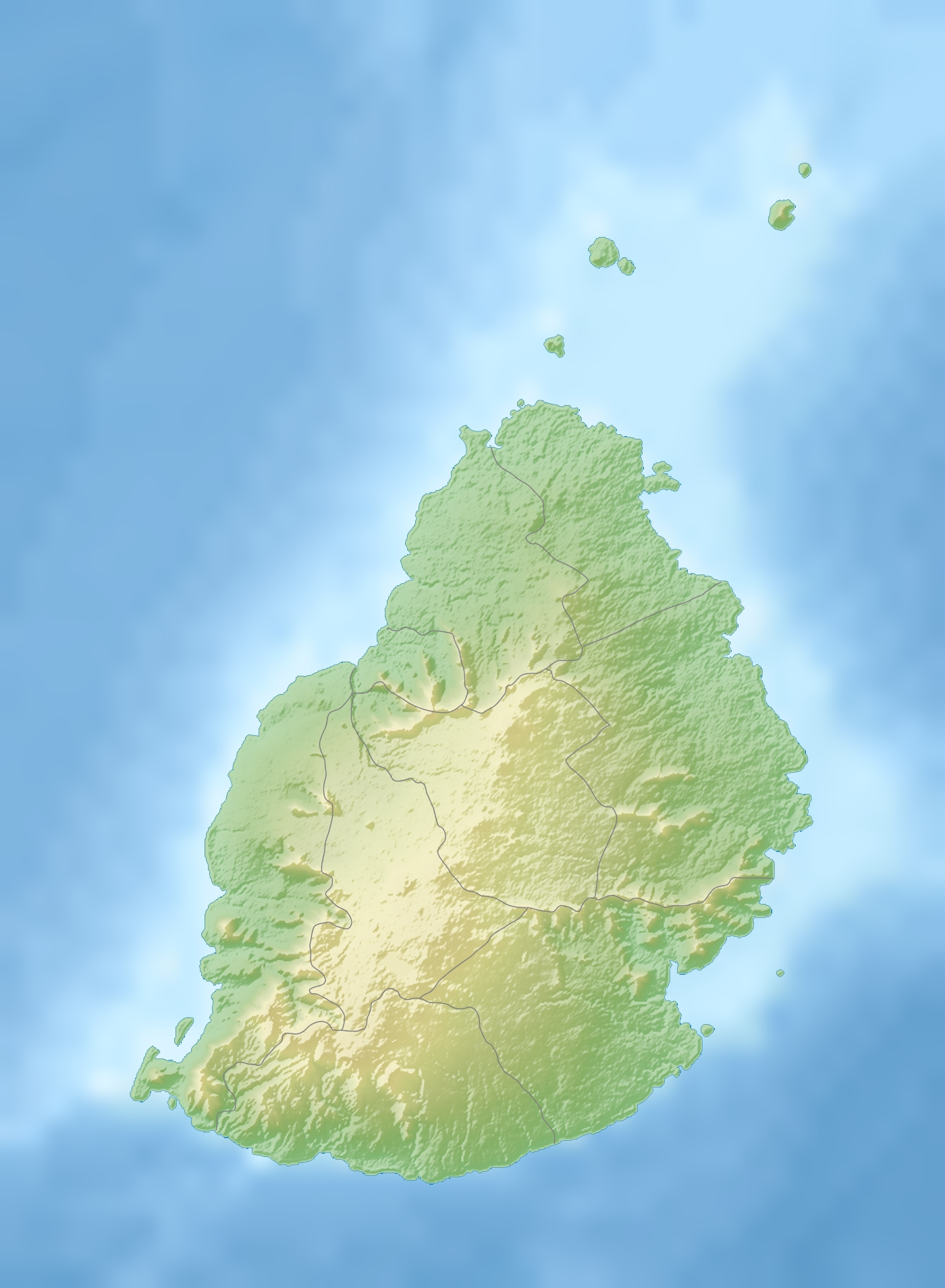 Relief location map of Mauritius. Projection: Equirectangular projection, strechted by 106.0%. Geographic limits of the map: N: -19.7° N S: -20.6° N W: 57.21° E E: 57.91° E GMT projection: -JX23.706666666666667cd/32.30880000000028cd GMT region: -R57.21/-20.6/57.91/-19.7r GMT region for grdcut: -R57.21/-20.6/57.91/-19.7r Relief: SRTM30plus. Made with Natural Earth. Free vector and raster map data @ .